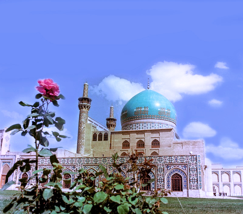 Goharshad Mosque - 1977